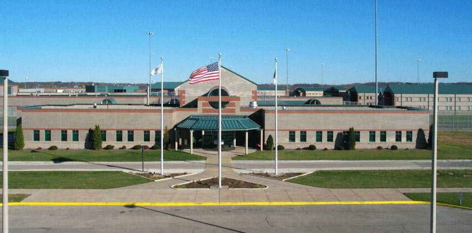 Federal Correctional Institution, Pekin, Tazewell County, Illinois